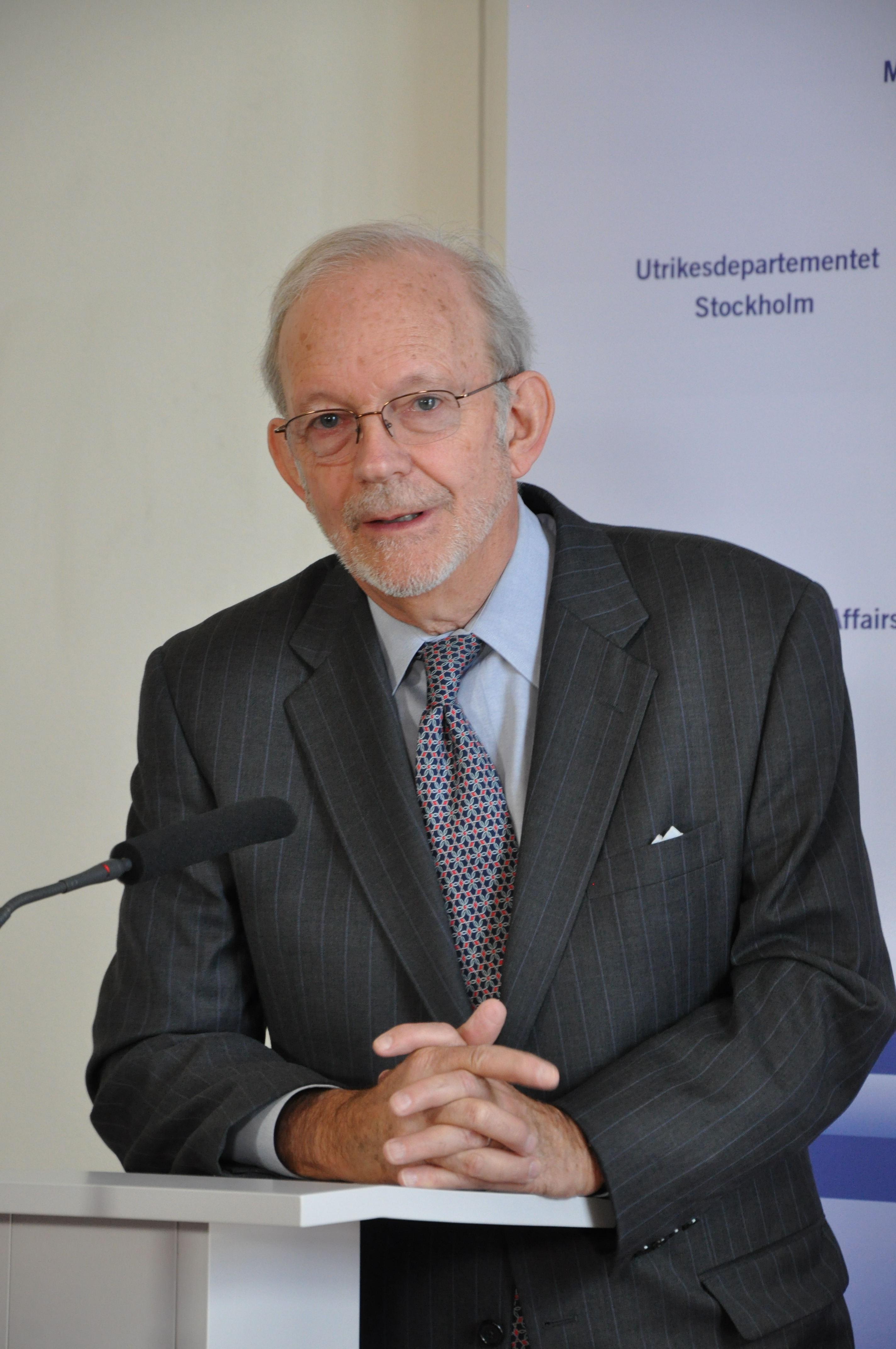 at a meeting at the Foreign Ministry, Stockholm, Sweden